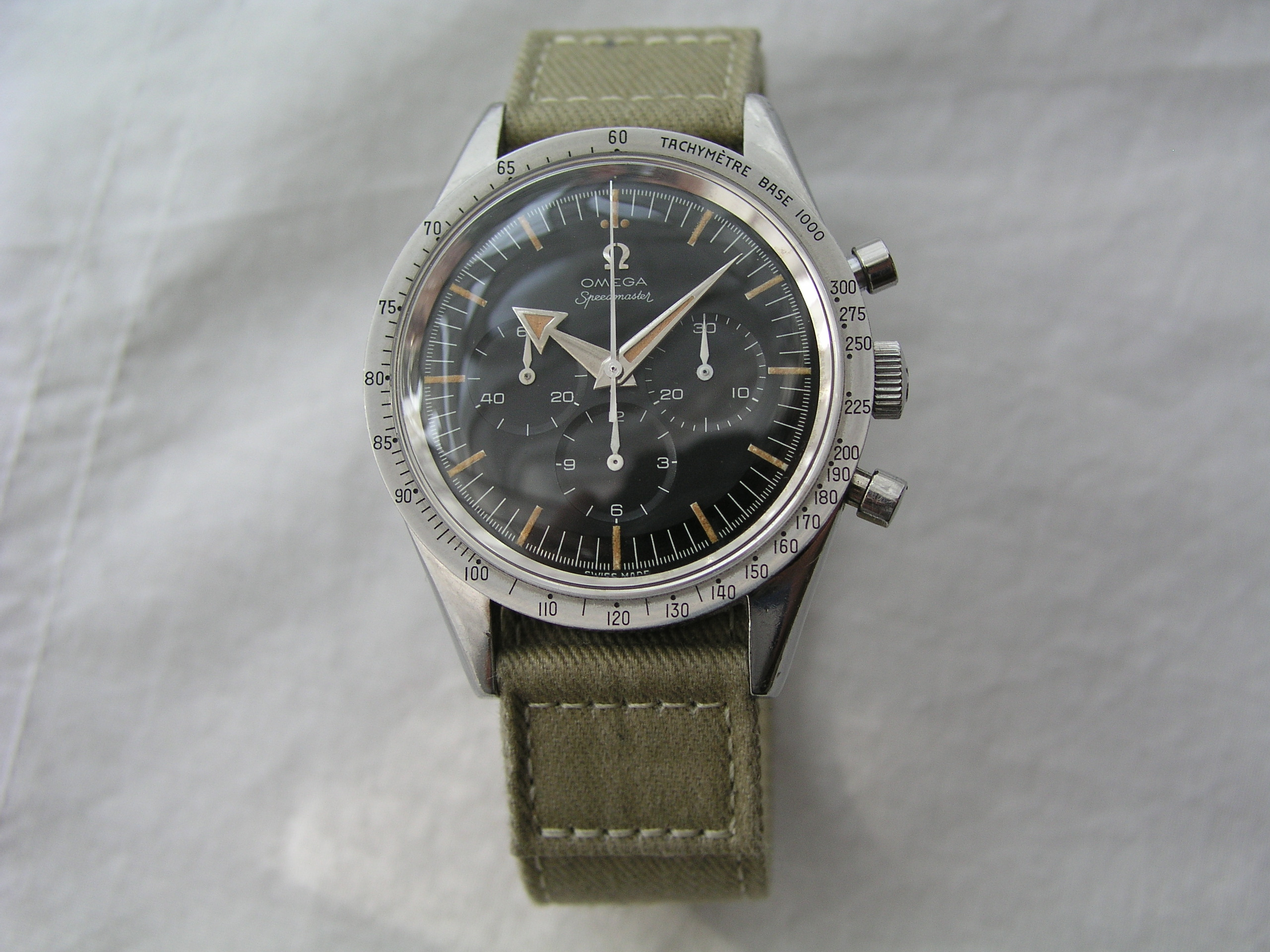 Picture of the first OMEGA Speedmaster from 1959 with broad arrow hands and stainless steel bezel